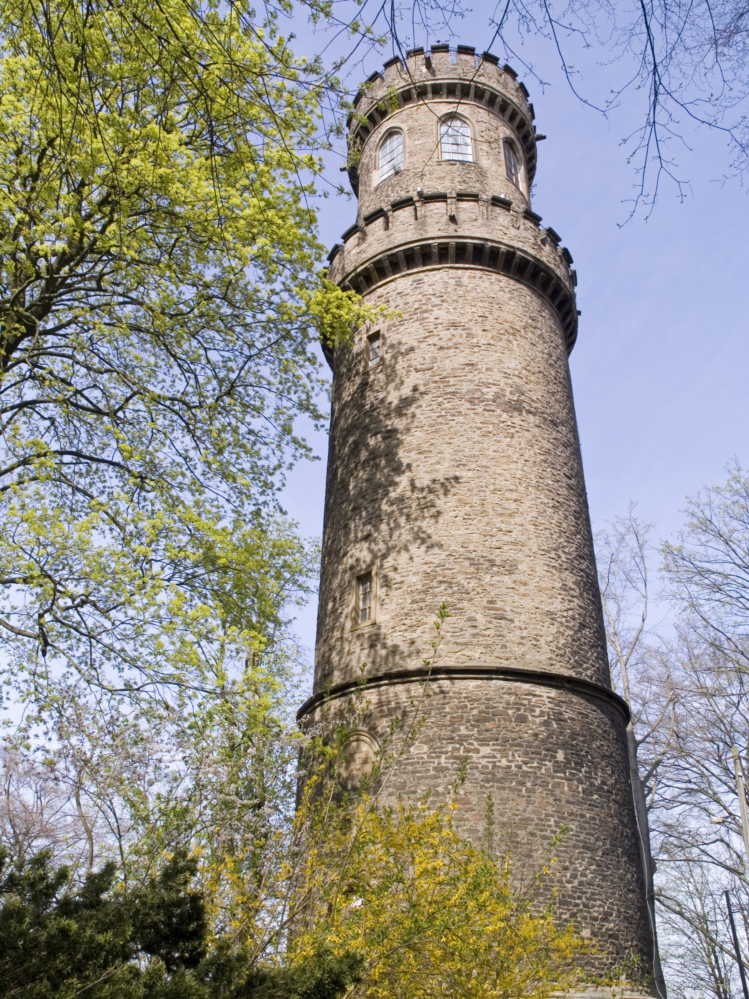 observation tower Helenenturm in Witten